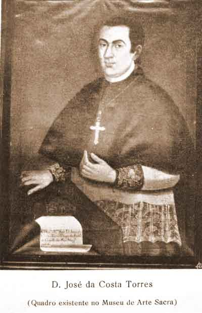 Picture of the portuguese bishop José da Costa Torres